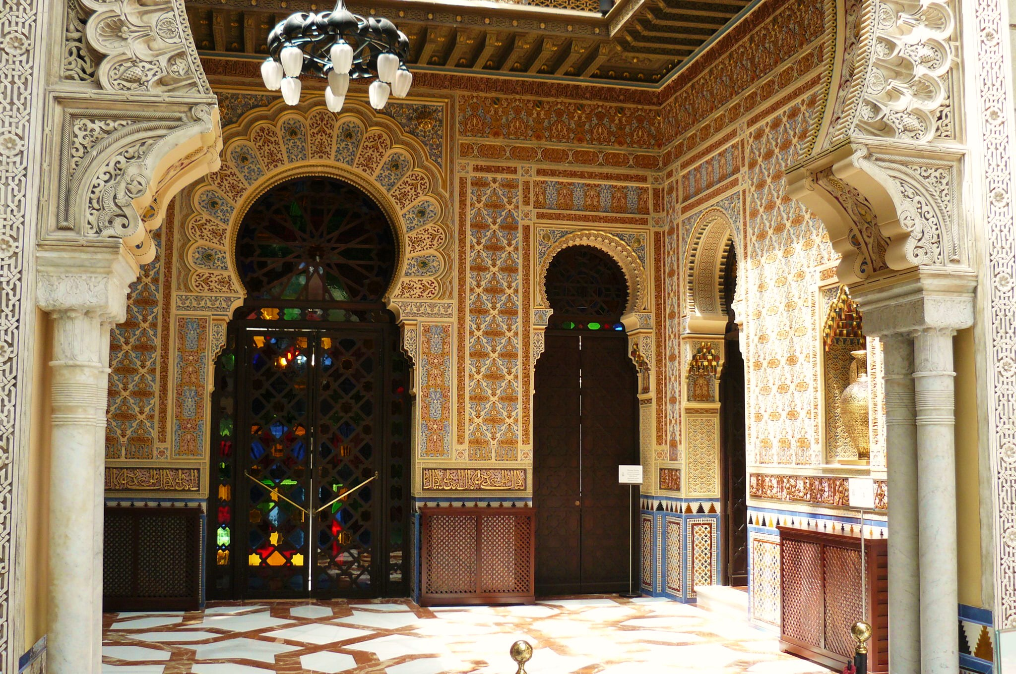 Real Casino de Murcia, entry.